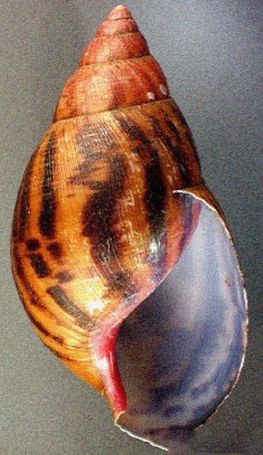 Photo of apertural view of the shell of Achatina achatina